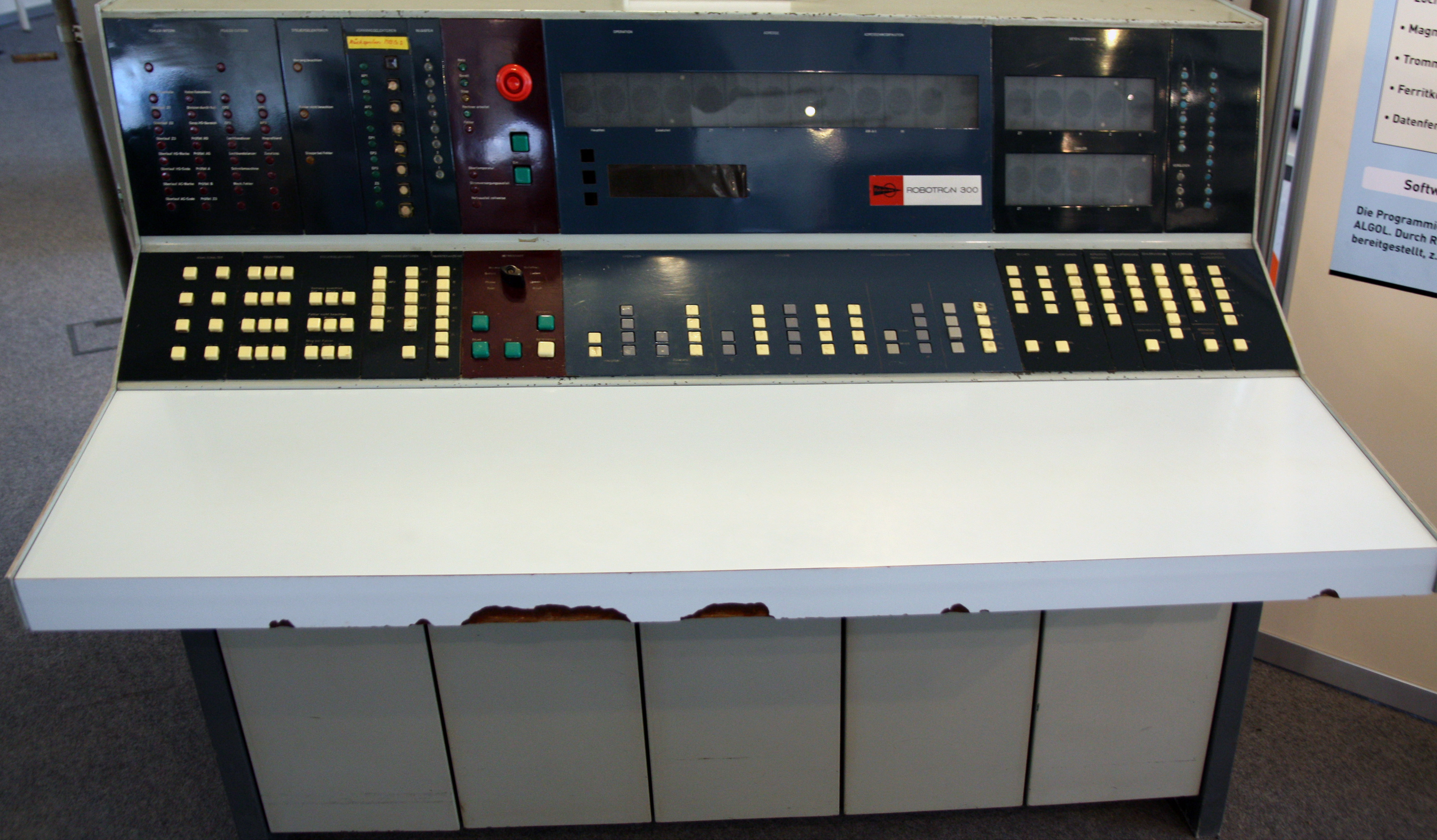 Robotron R300 Business Computer from GDR (East Germany), Control Panel, IBM 1401 Clone, recorded in the Technical Collections Dresden